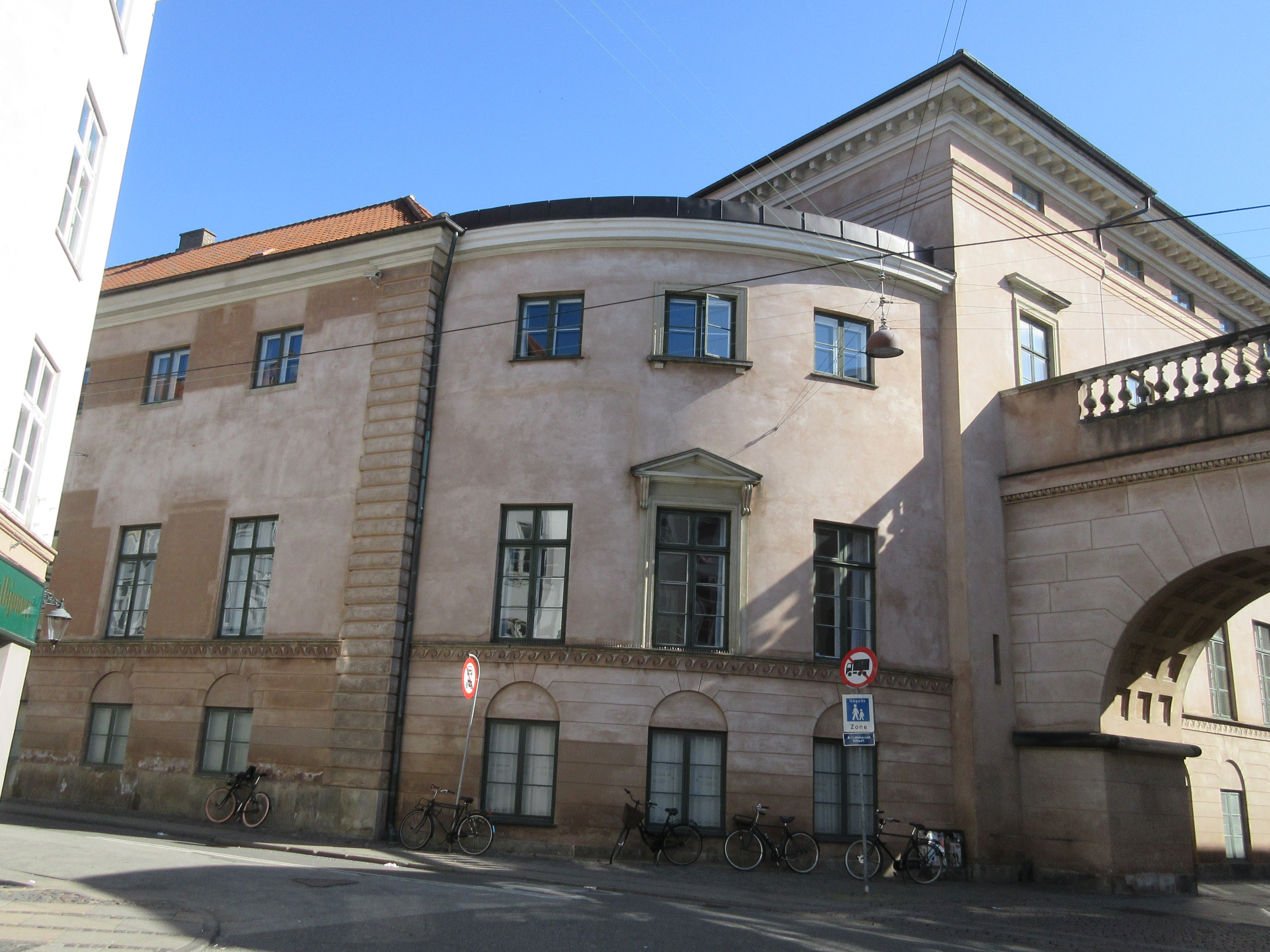 The rear side of Domhuset at the corner of Kattesundet and Slutterigade in Copenhagen, Denmark